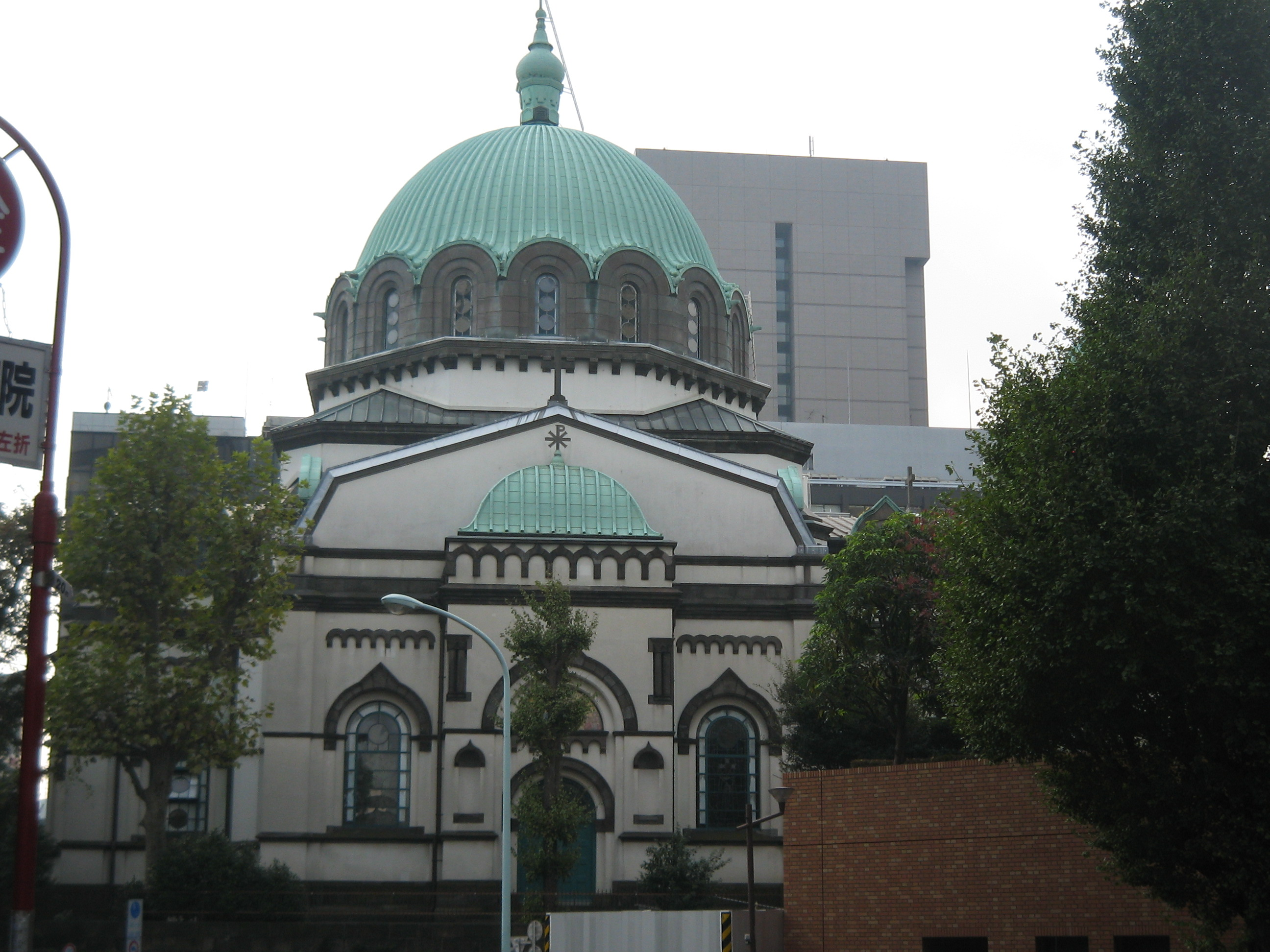 Nicholai-Do is the head church in the Japanese Orthodox Church, and was founded by a Russian immigrant to Japan.